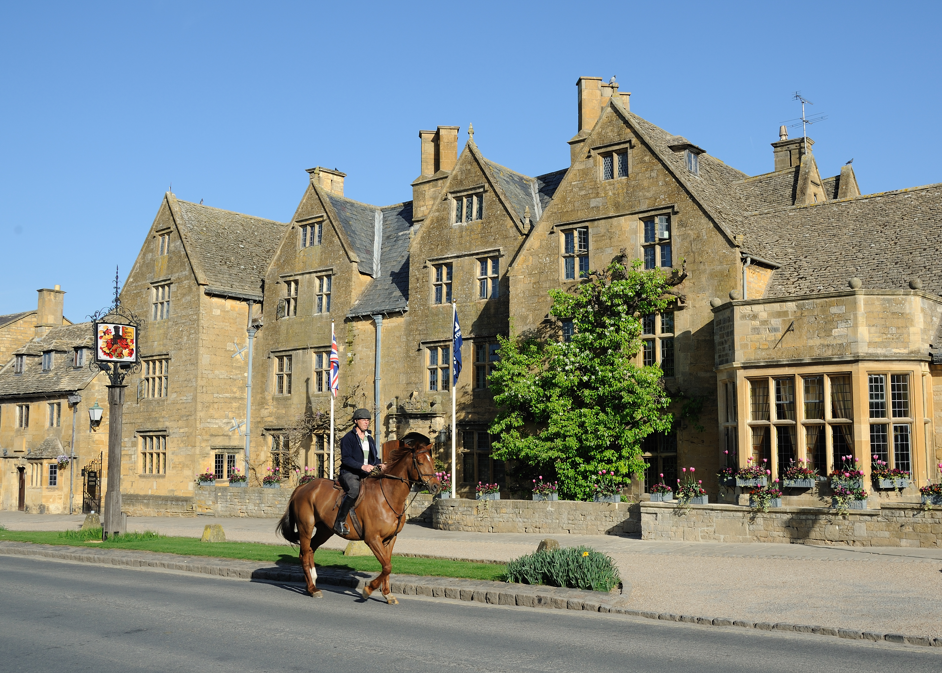 A rider passes in front of the Lygon Arms hotel in Broadway, a Cotswolds village. The first recorded date in the history of The Lygon Arms (then the White Hart Inn) is in 1532, when the Broadway Parish Register noted its owner as Mr Thomas White, a local wool merchant. Oliver Cromwell, who became Lord Protector of England in 1653, stayed at The Inn on 2nd September 1651, the night before the Battle of Worcester, the final and decisive battle of the great Civil War, fought between King Charles I and his "Cavaliers" and Parliament's "Roundheads".